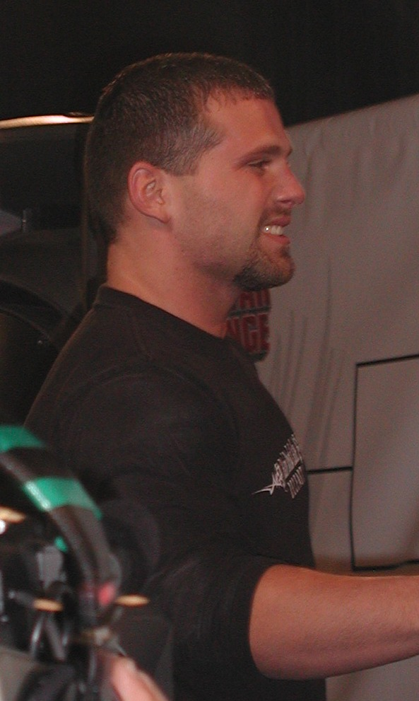 Jamie Noble at WWE Fan Axxess. Seahawk Stadium Exibition Center, Seattle, WA, March 2003.